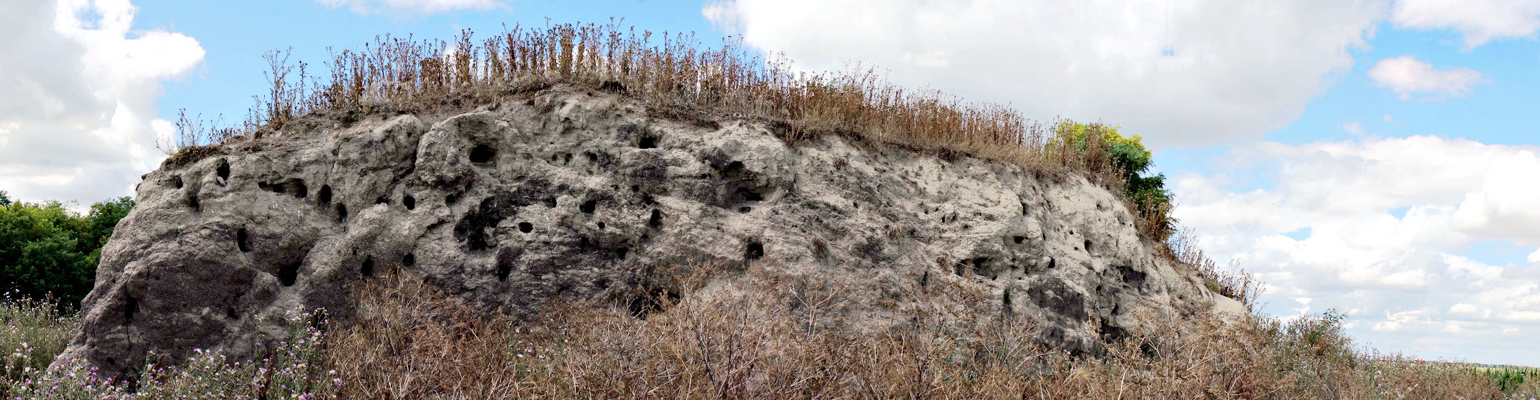 Panoramic photo of the current state of this artifical earth mound, which in its original state had at least 100 feet in diameter (28-30 m)